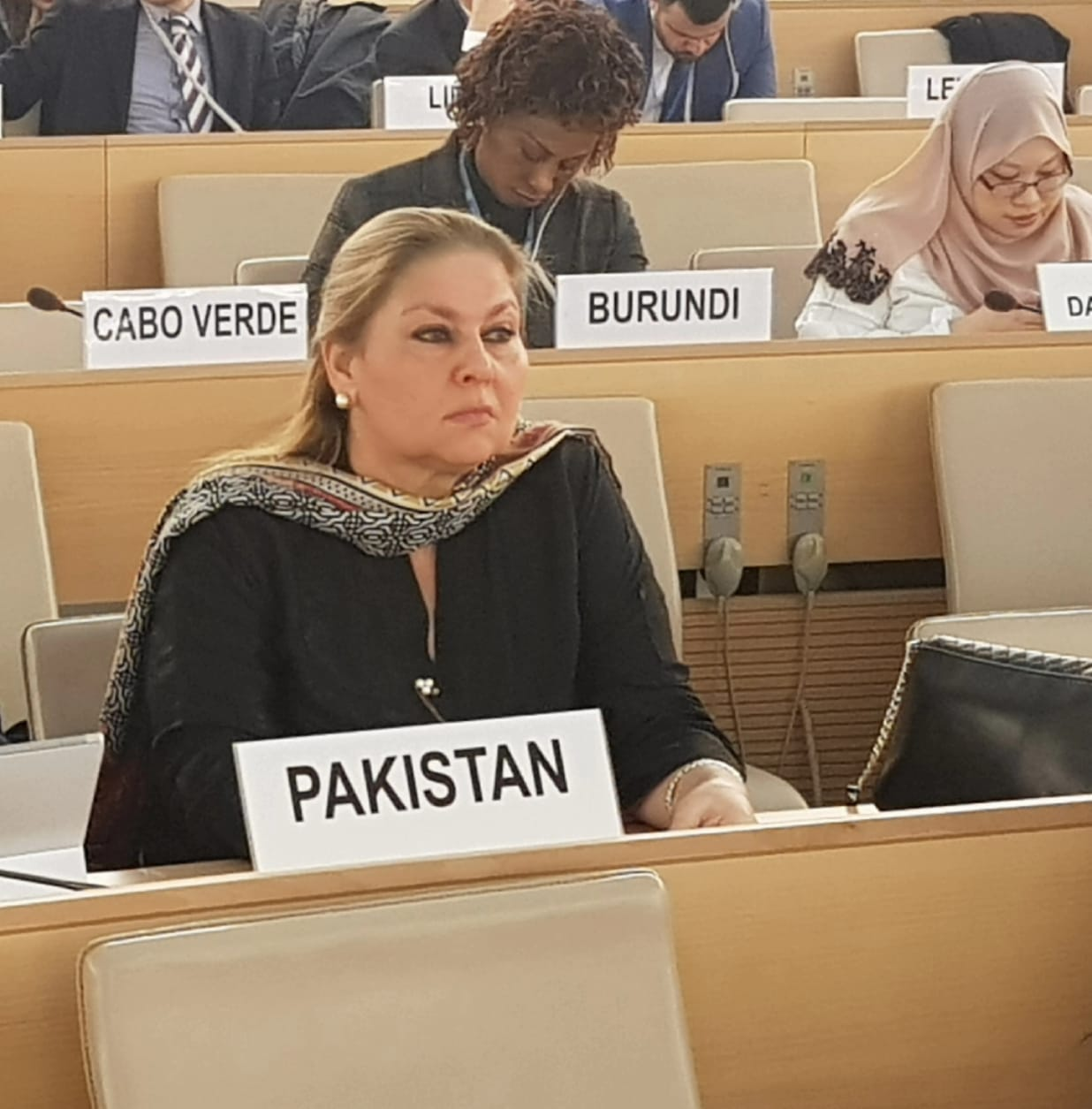 Federal Secretary, Ministry of Human Rights at CEDAW 2020 for the 5th periodical CEDAW report by Pakistan